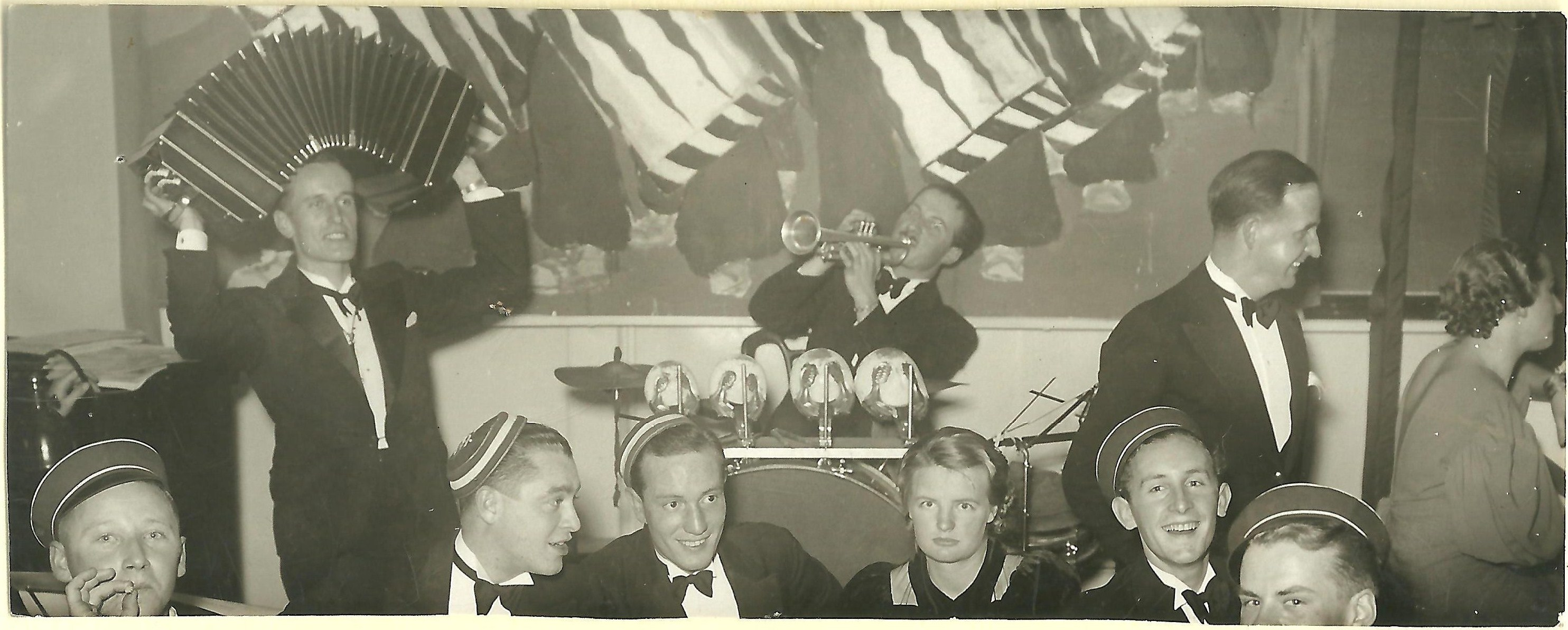 Hans Martin Sutermeister playing bandoneon at a Zofingia meeting